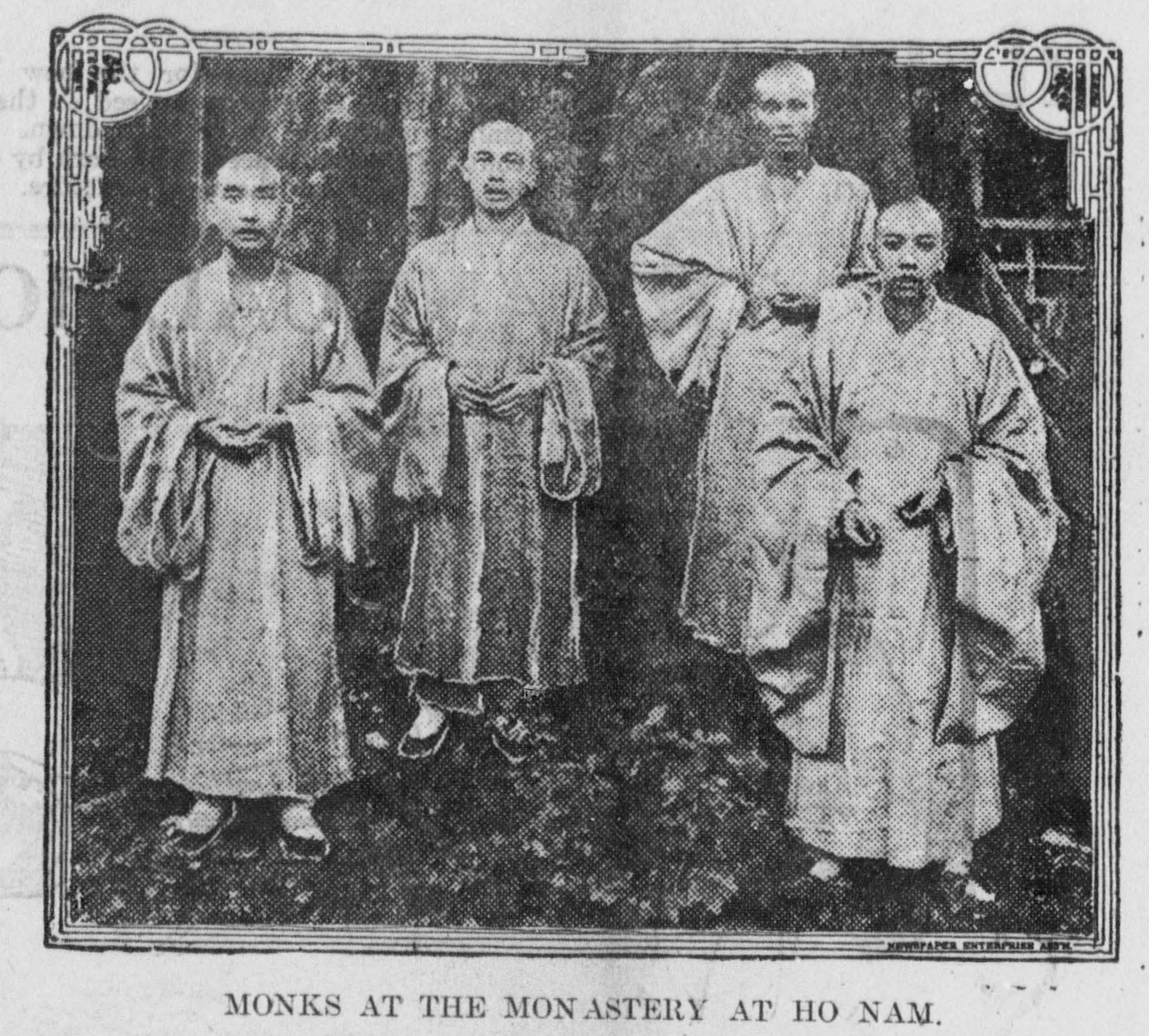 Monks at the Hoi Tong Monastery, Honam, Canton, China, 1903